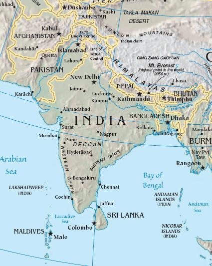 The image is cropped from Image:Sino-Indian Geography.png, created and published by the Central Intelligence Agency of the United States of America in en:2004. Note This map represents the line of control in Kashmir as the international border between the Republic of India and Islamic Republic of Pakistan, a position considered unacceptable to either party.